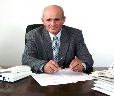 Jaroslav Rovný